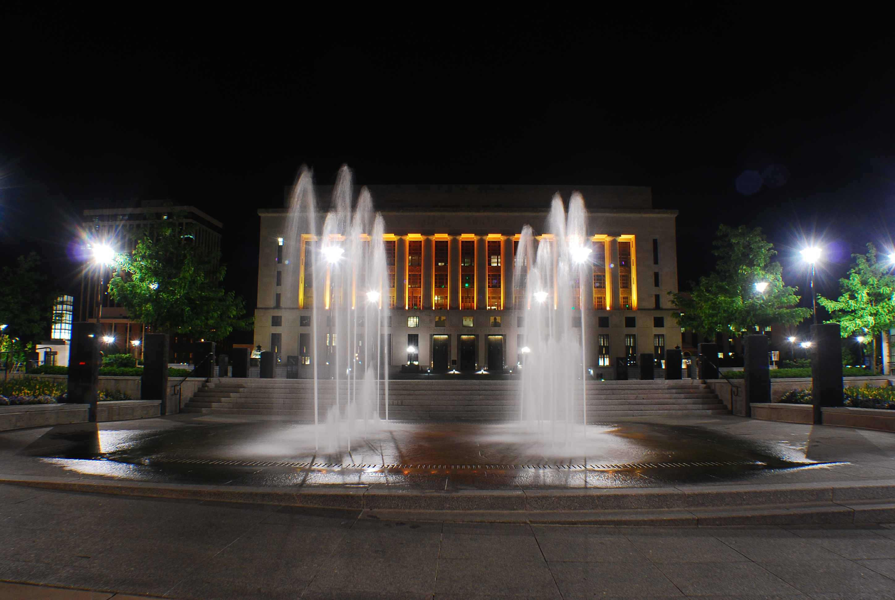 Davidson County Courthouse